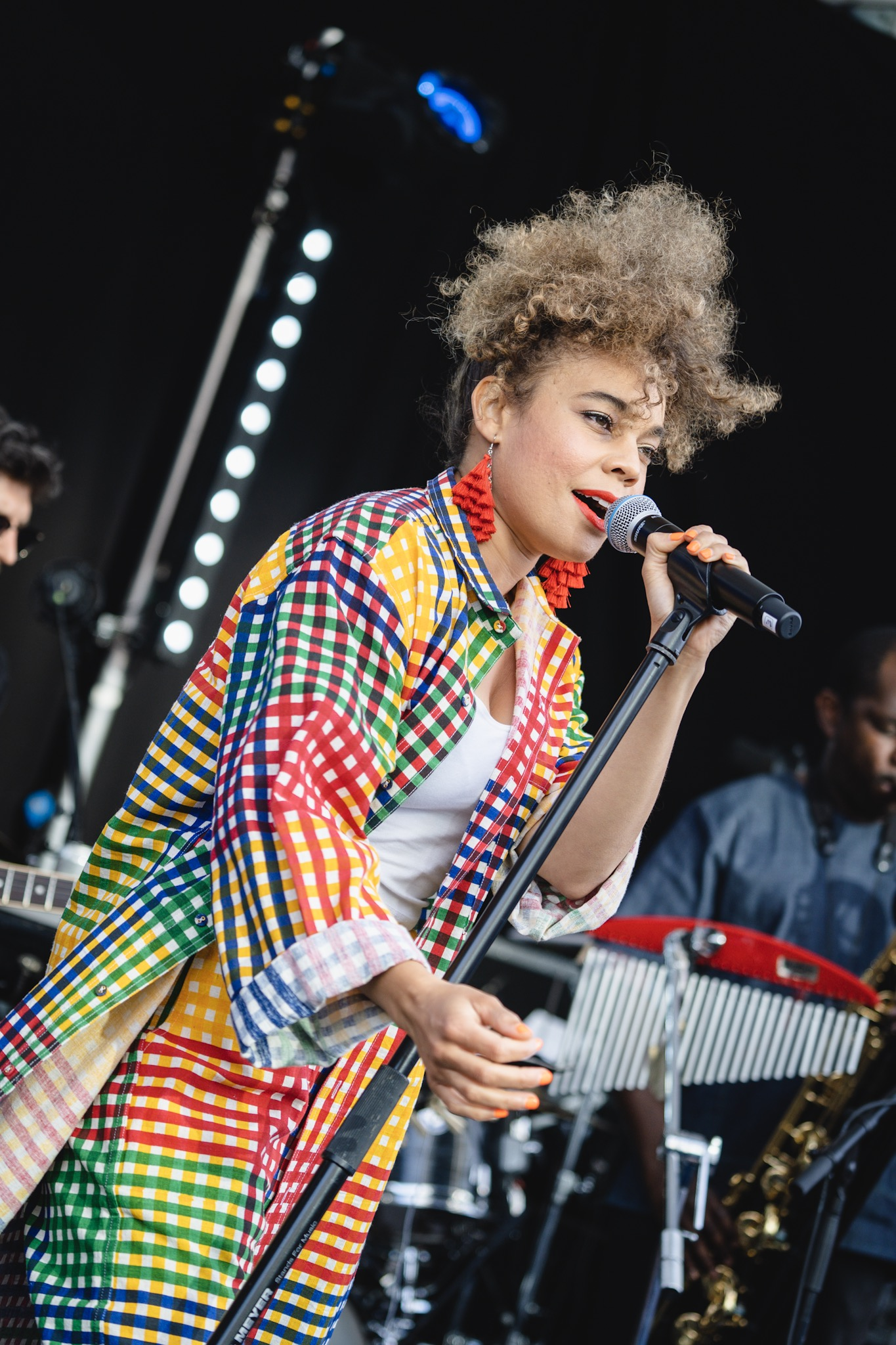 Turning Tides Festival: Andreya Triana